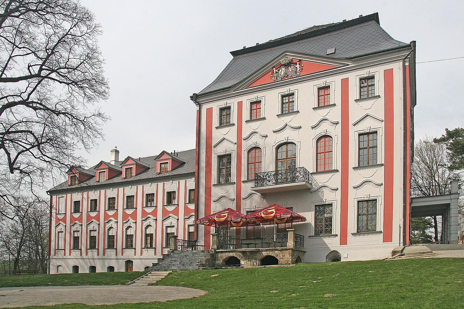 16th century château in classical Baroque-Rococo character, a former estate and residence of the Moravian-Bohemian Counts of Chorinsky Barons of Ledske dynasty, in Velké Hoštice, district Opava, Czech Republic